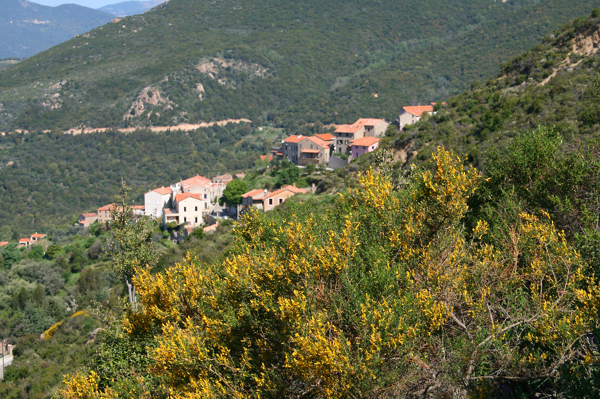 Sari-d'Orcino - France - ( Corse du Sud), view of the village. Corsu: Sari d'Urcinu Francia (Corsica suttana), vista di paese.